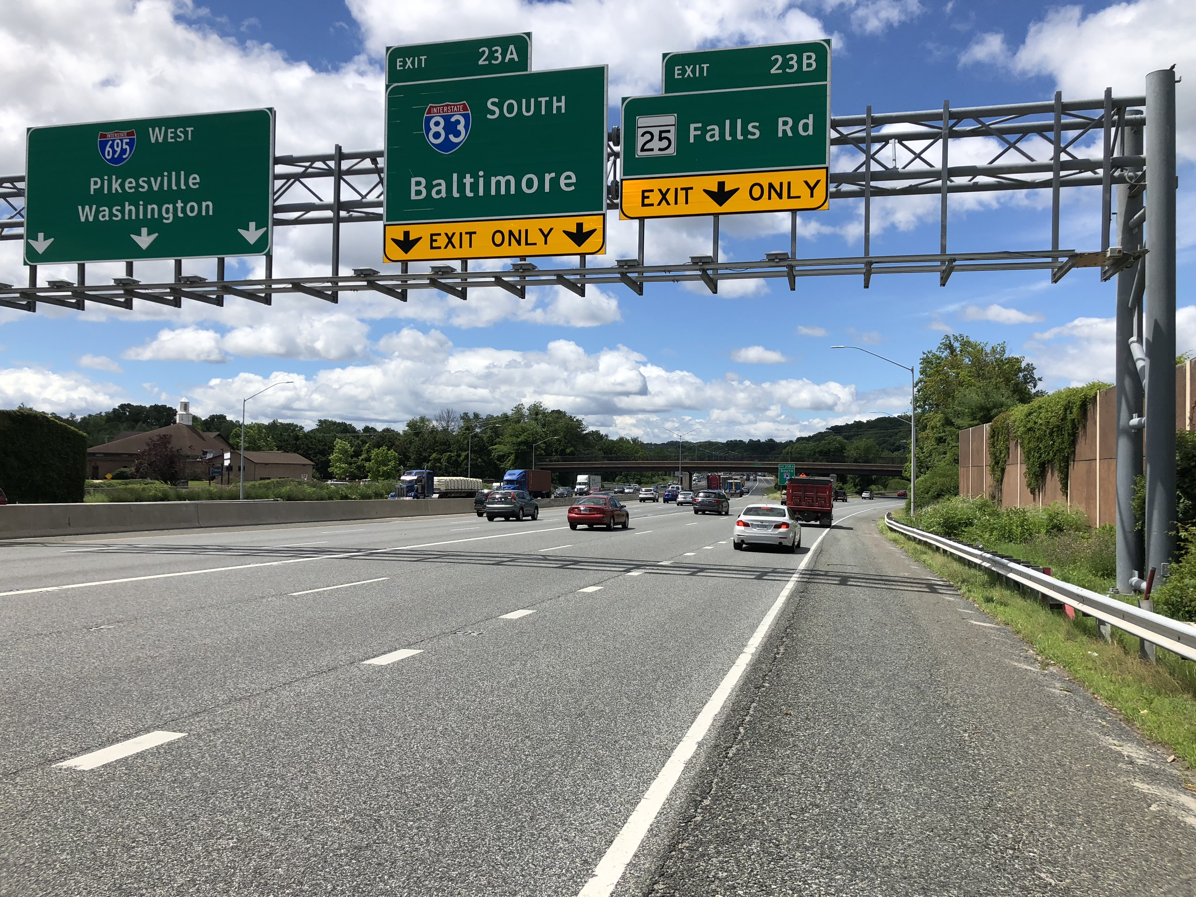 View southwest along the Outer Loop of the Baltimore Beltway (Interstate 83 and Interstate 695) at Exit 23 (Interstate 83 SOUTH, Baltimore, Maryland State Route 25/Falls Road) on the edge of Towson and Mays Chapel in Baltimore County, Maryland